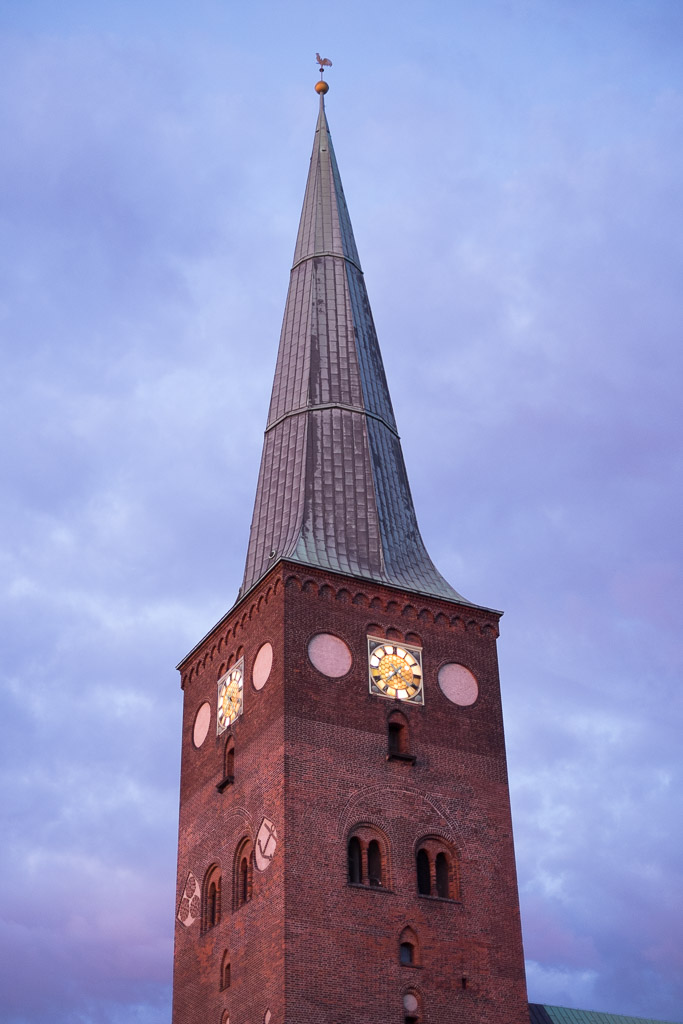 Clock tower in Aarhus